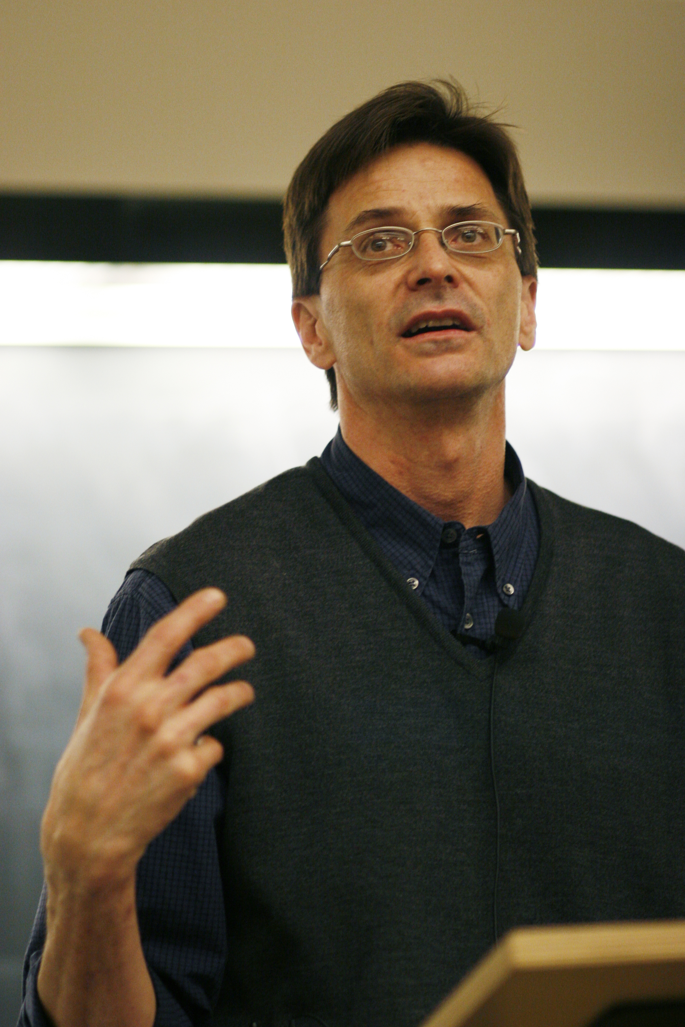 Robert Jensen speaking at York University after "The Heart of Whiteness" was published.